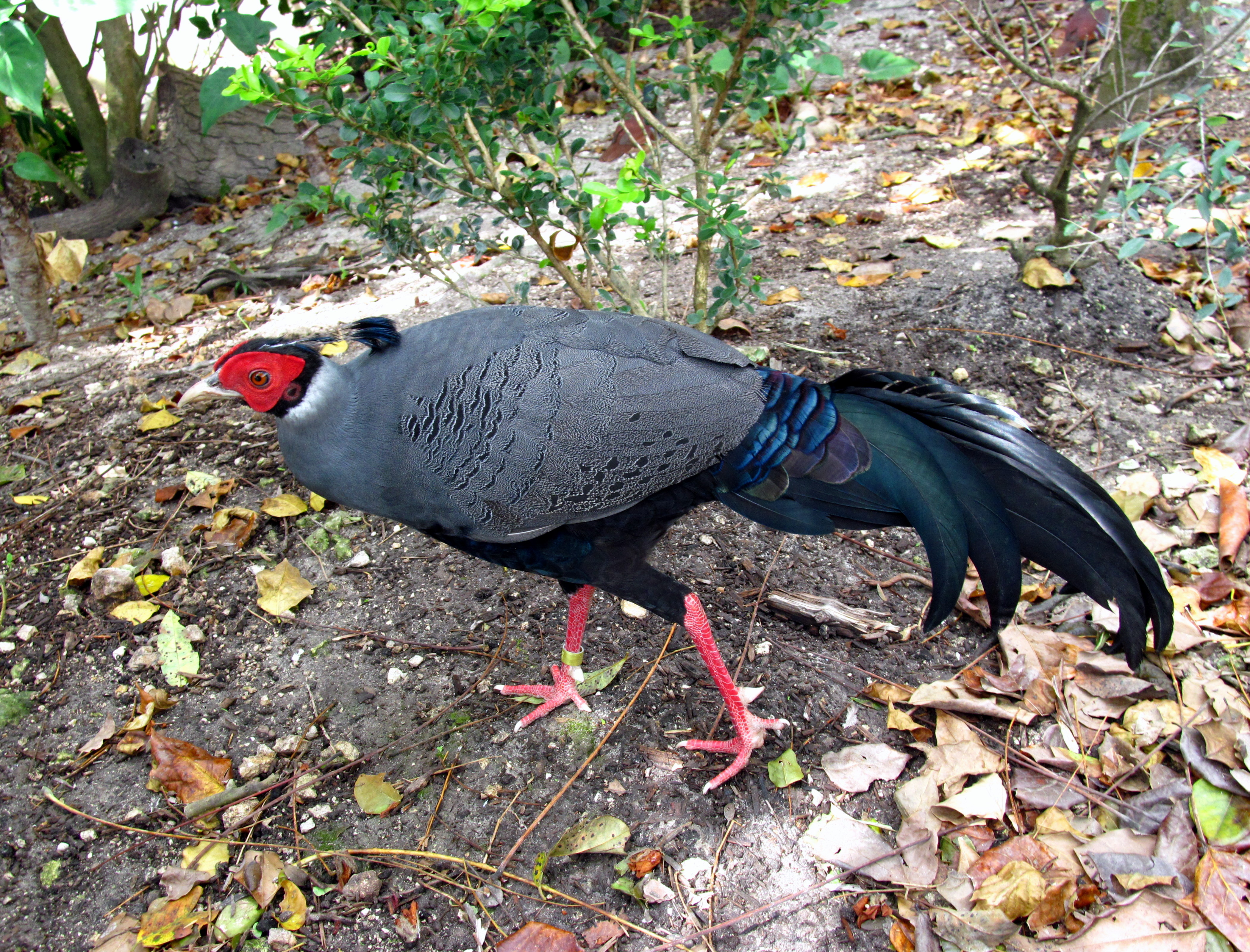 An adult male Siamese Fireback in captivity in Florida, USA.